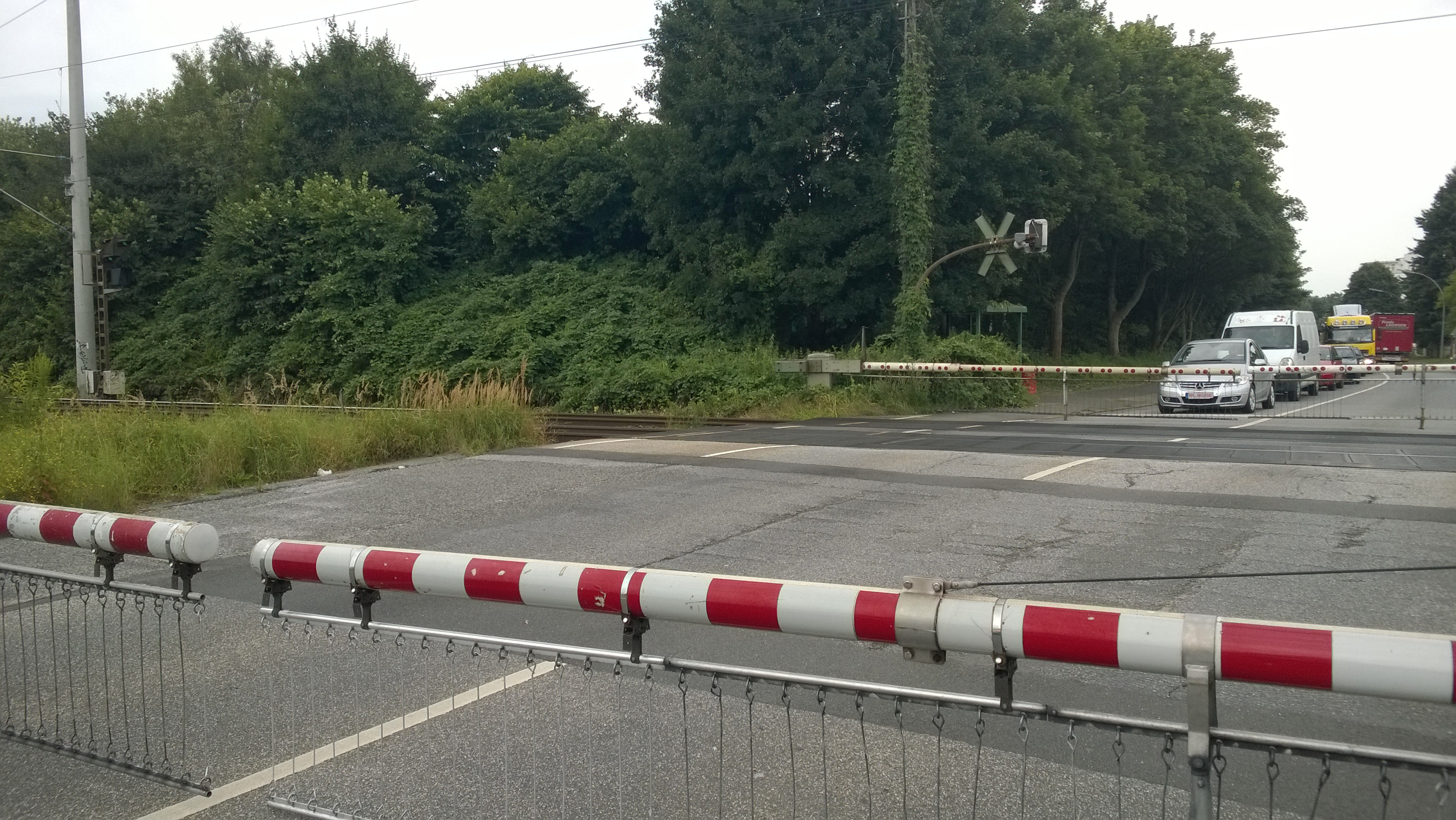 Bahnübergang der Jenfelder Straße an der Bahnstrecke Lübeck–Hamburg. Flächenfreihaltung für die S4 im Vordergrund (durch die der Bahnübergang entfällt)